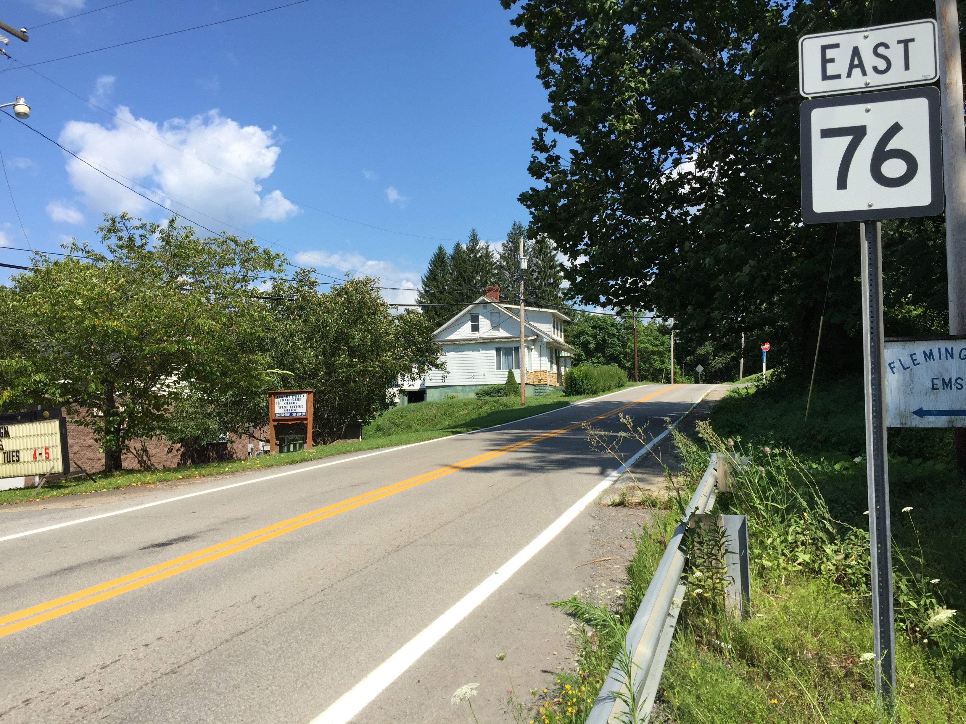 View east along West Virginia State Route 76 at Wall Street in Flemington, Taylor County, West Virginia